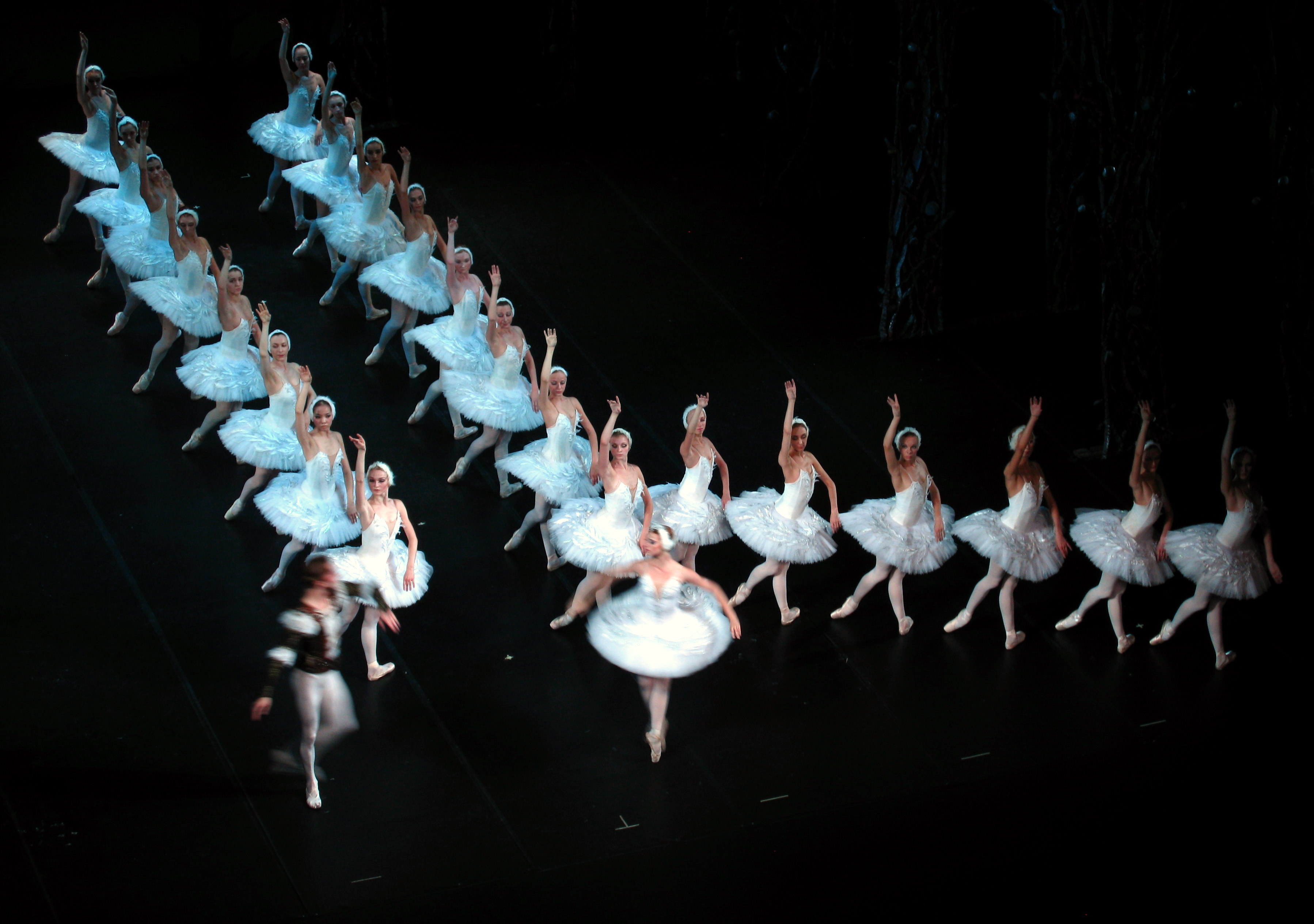 8332 - St Petersburg - Alexandrinsky Theater - Swan Lake, Location: Saint Petersburg